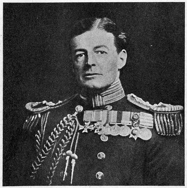 Rear Admiral David Beatty of the Royal Navy.